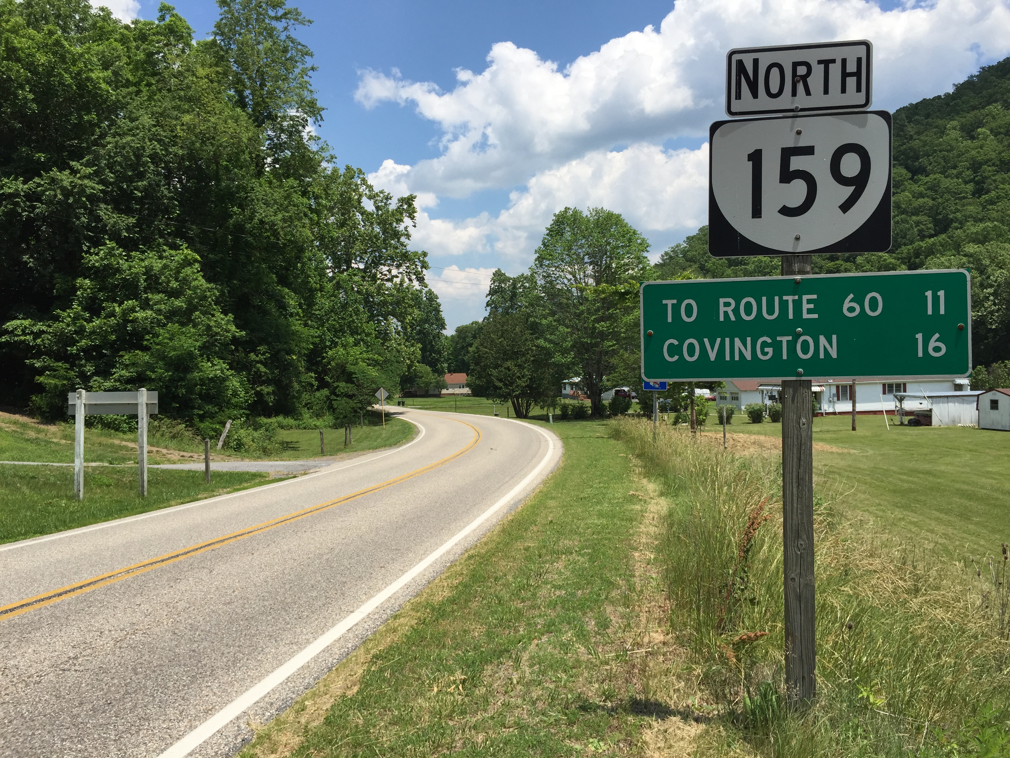 View north along Virginia State Route 159 (Dunlap Creek Road) just north of Virginia State Route 311 (Kanawha Trail) in Crows, Alleghany County, Virginia